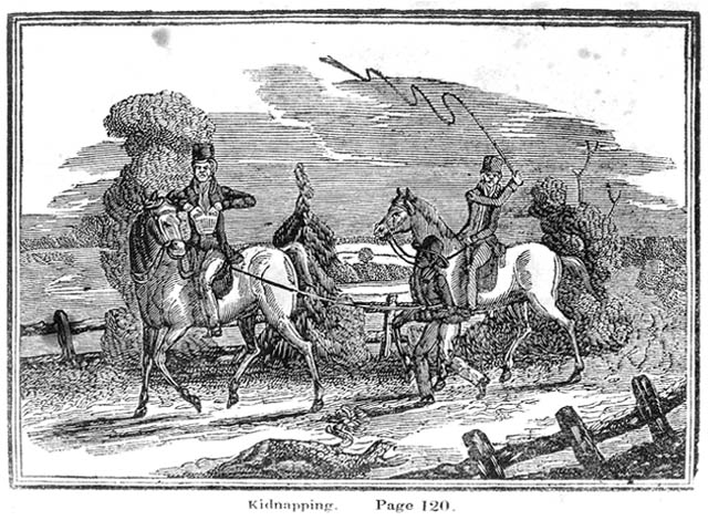 1834 woodcut of the kidnapping of a free black person to be sold into slavery